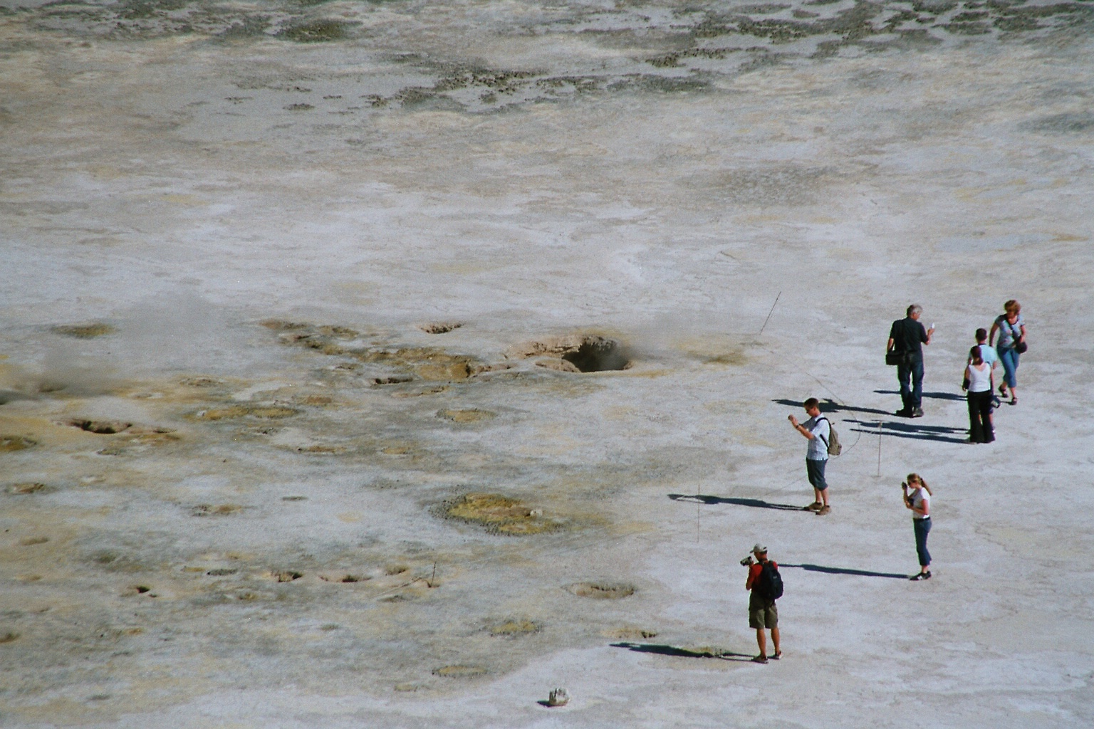 Fumaroles at Nisyros, Greece